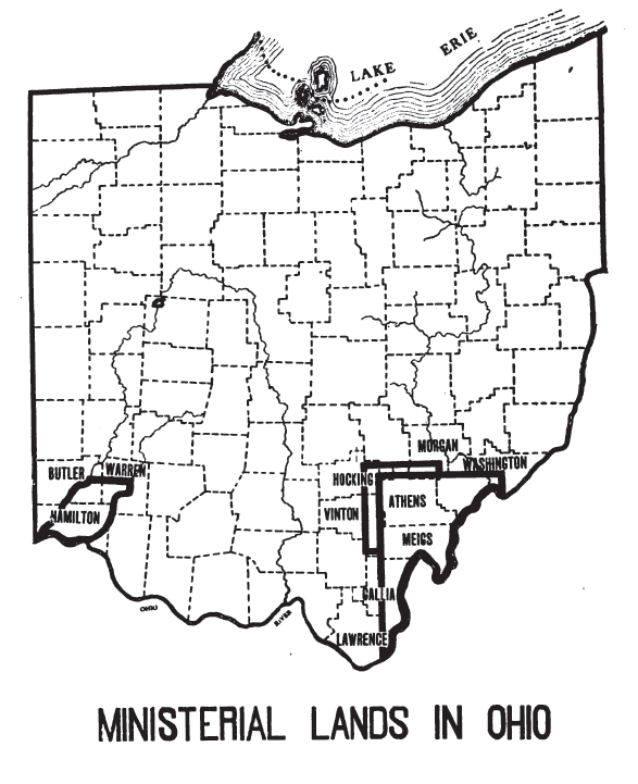 shows the land tracts in Ohio where parcels were set aside for support of clergy, see Ministerial Lands